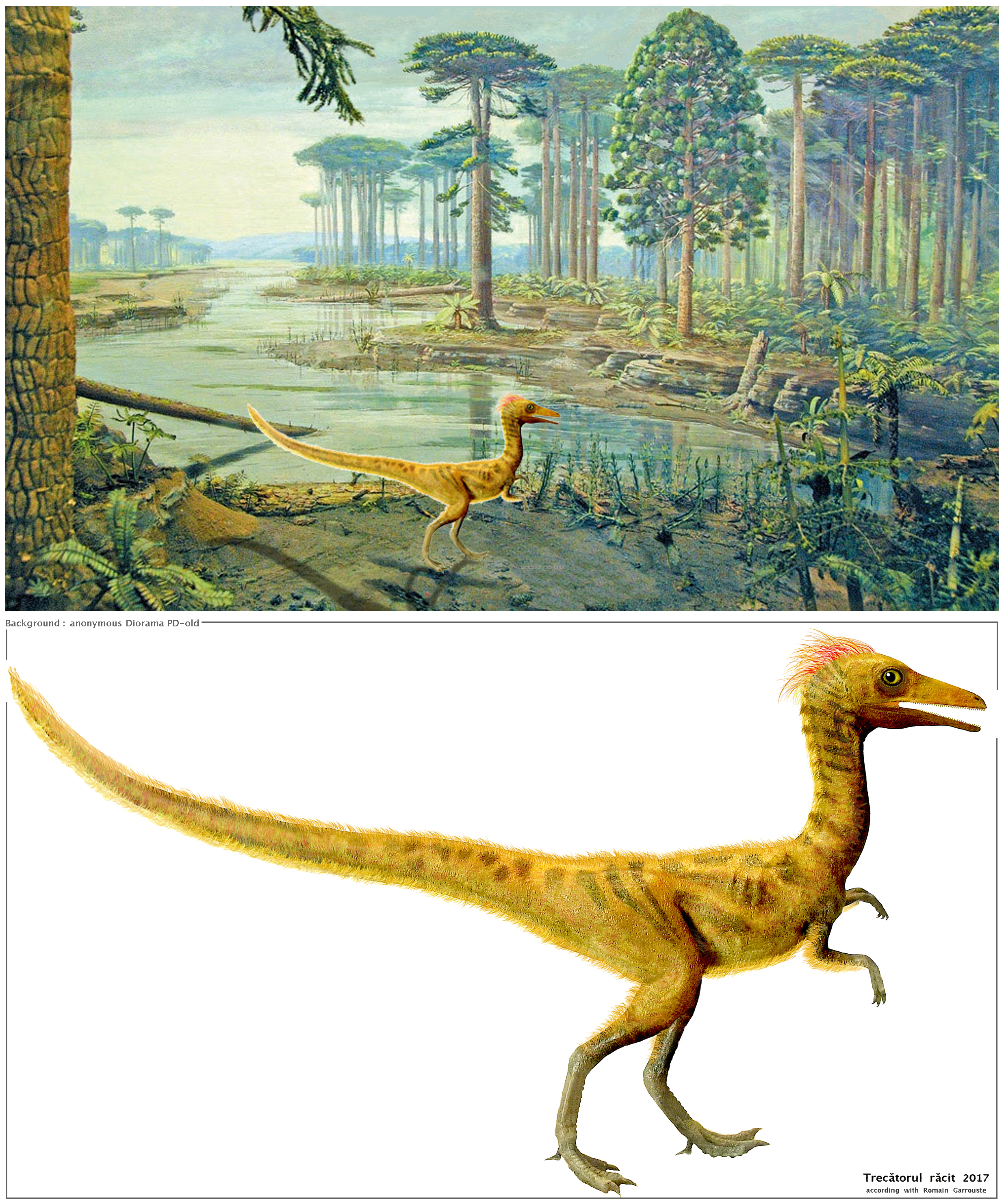 Compsognathus longipes (conjectural restitution)